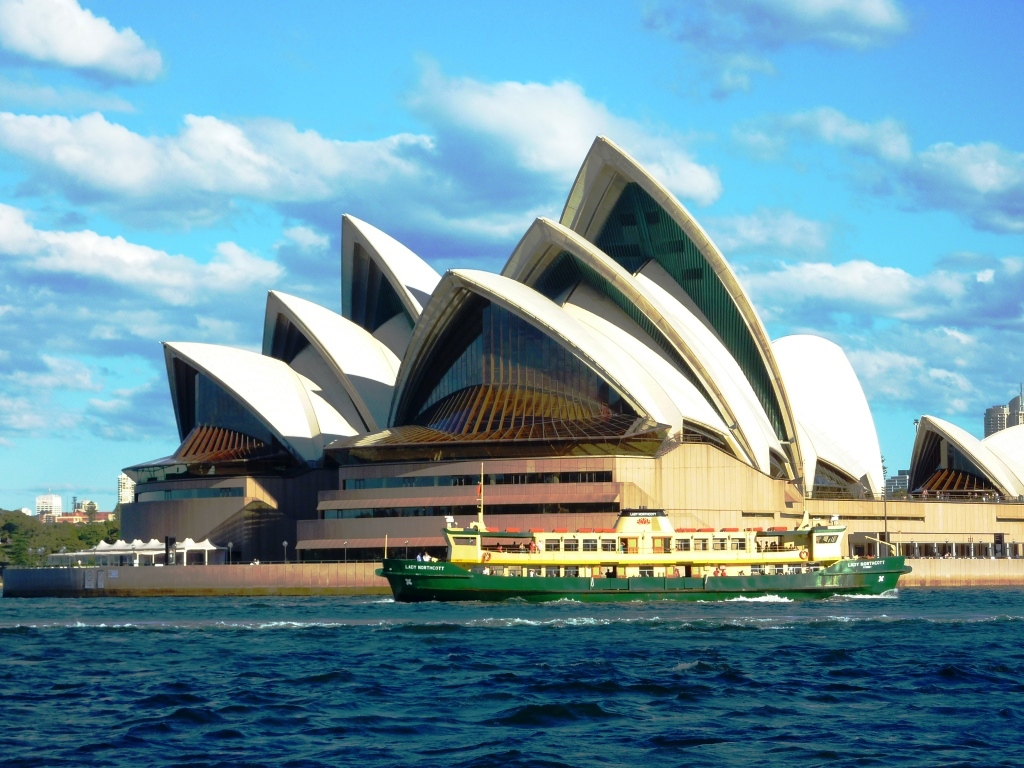 Opera House Mar. 2011